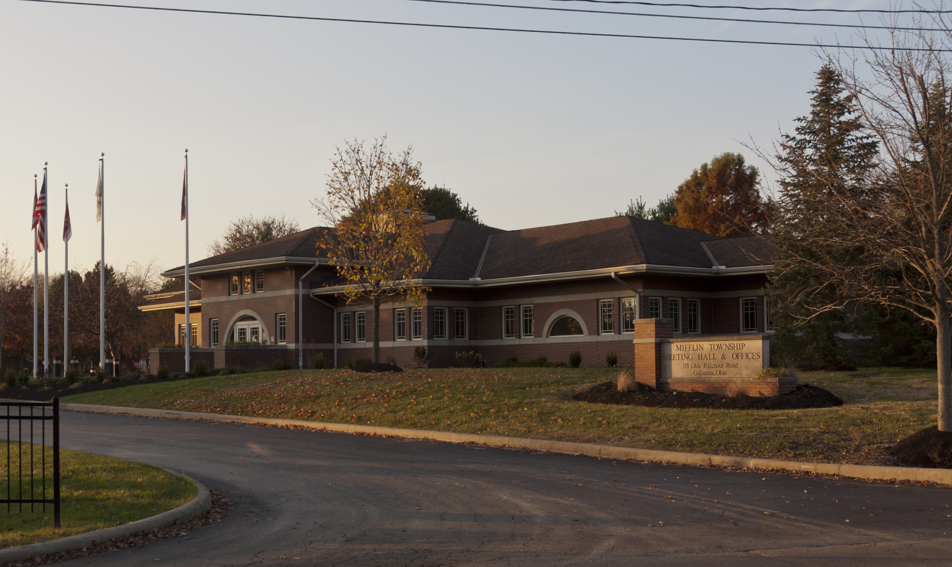 Mifflin Township Meeting Hall & Offices located in Gahanna, Ohio.